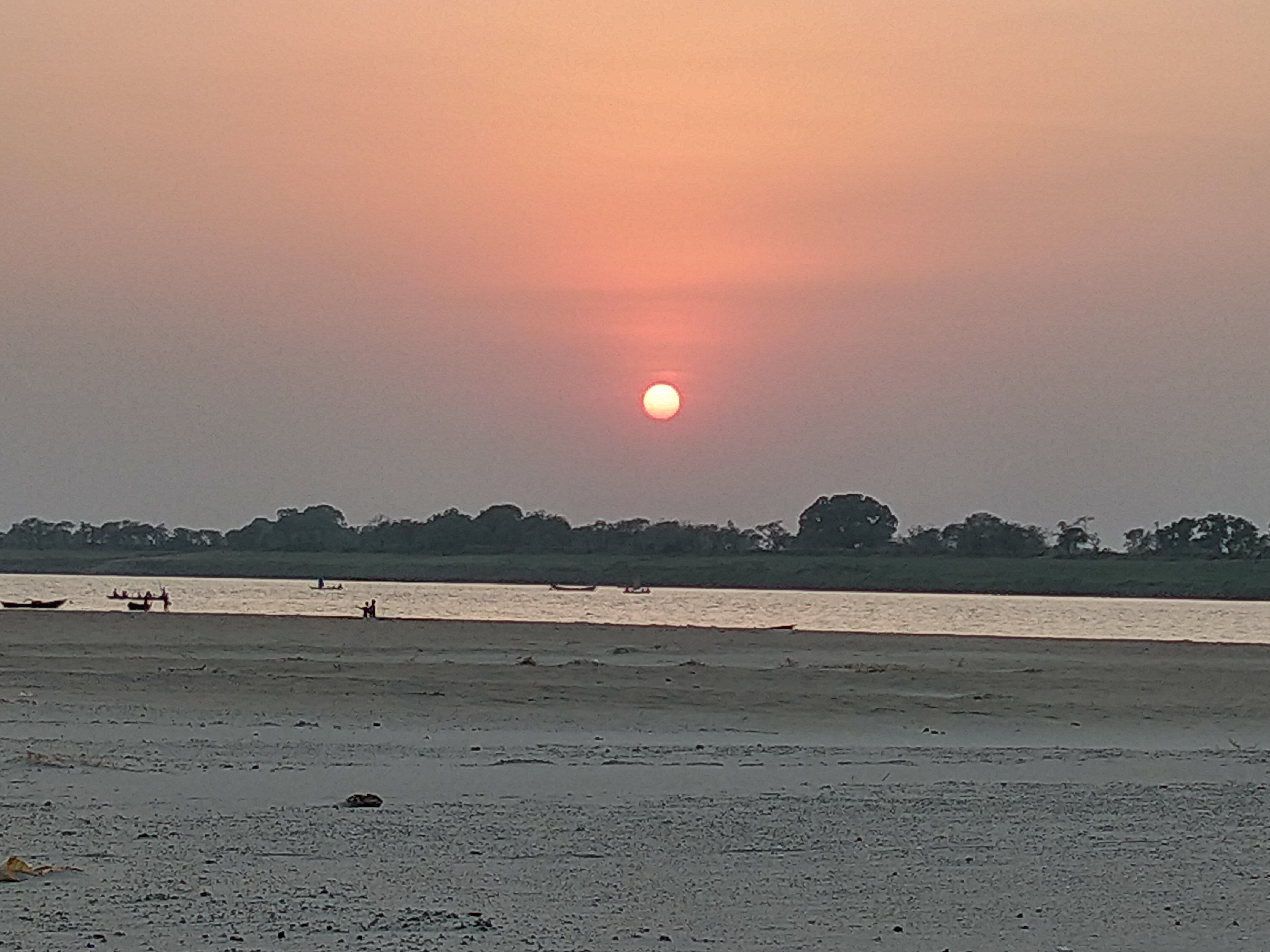 A Beautiful sunset view on Holy River Ganga -Bara